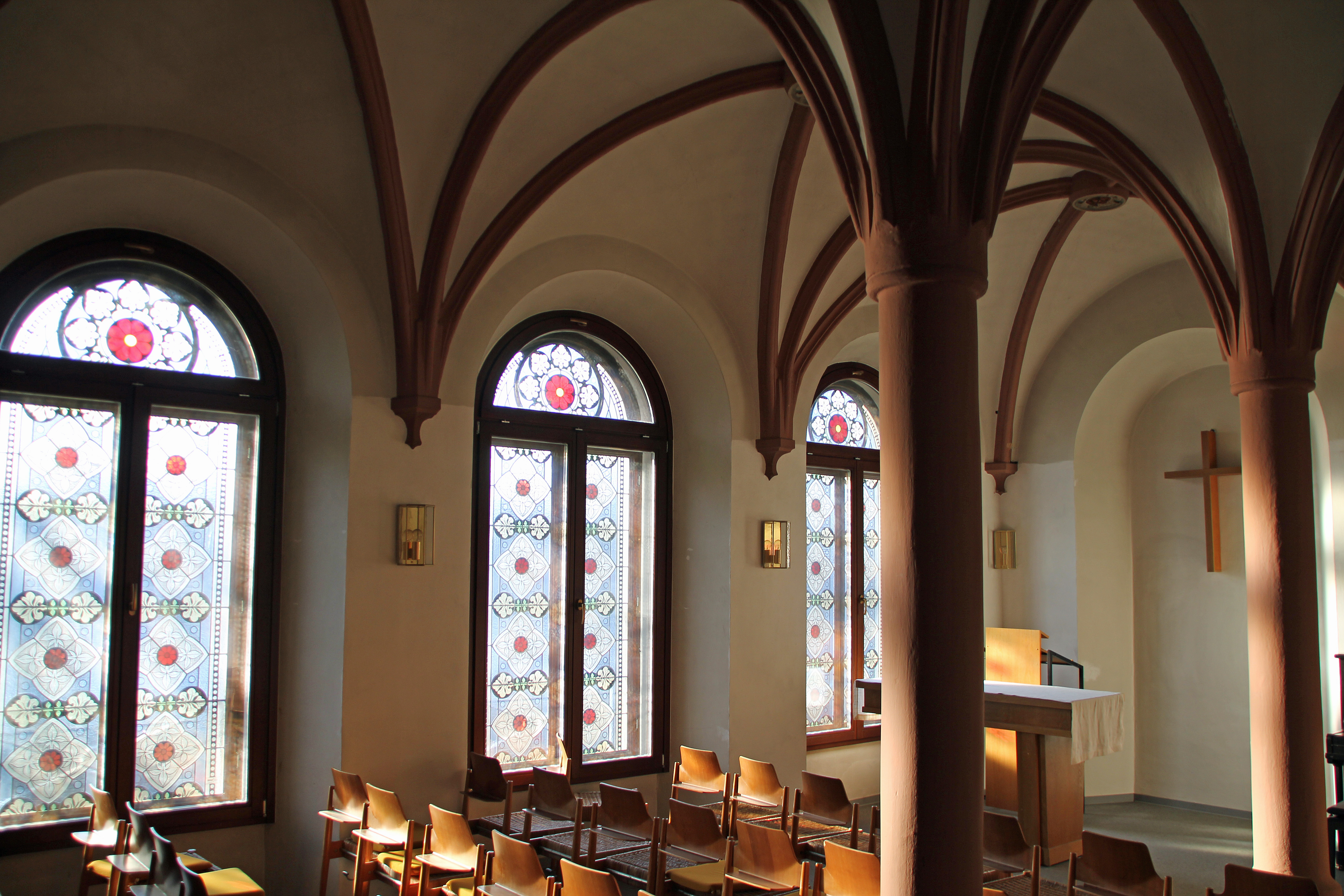 Lutherkapelle in Koblenz